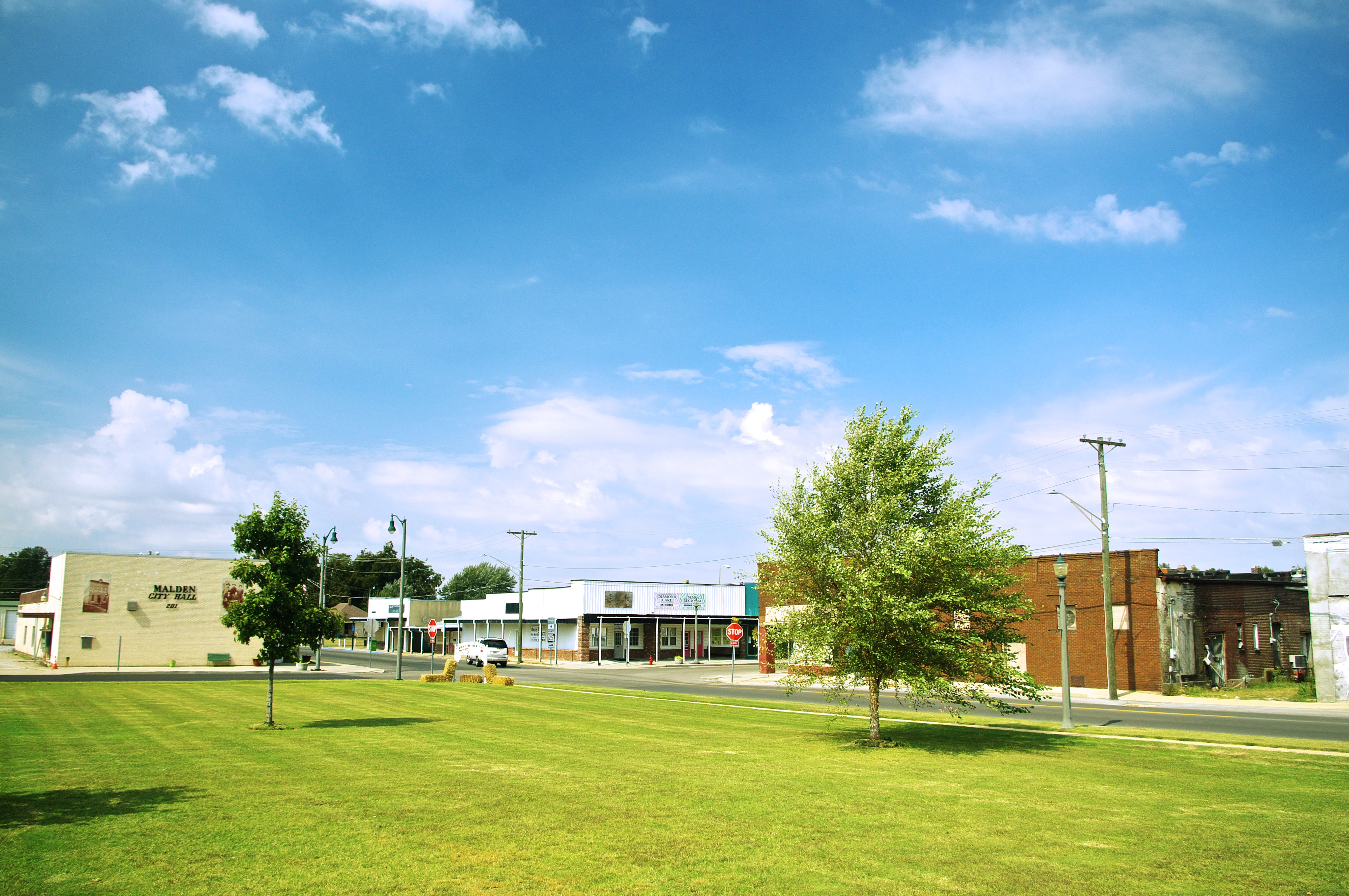 Buildings at the corner of Laclede and Madison viewed from across Cotton Belt Park in Malden, Missouri, United States.